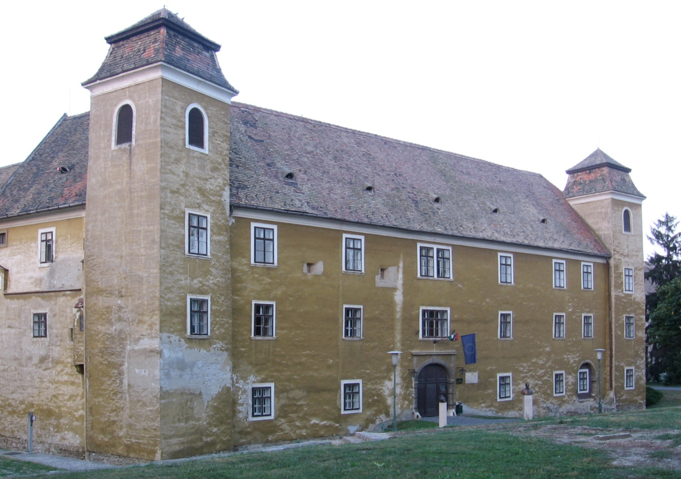 the castle of Mosonmagyaróvár, Hungary